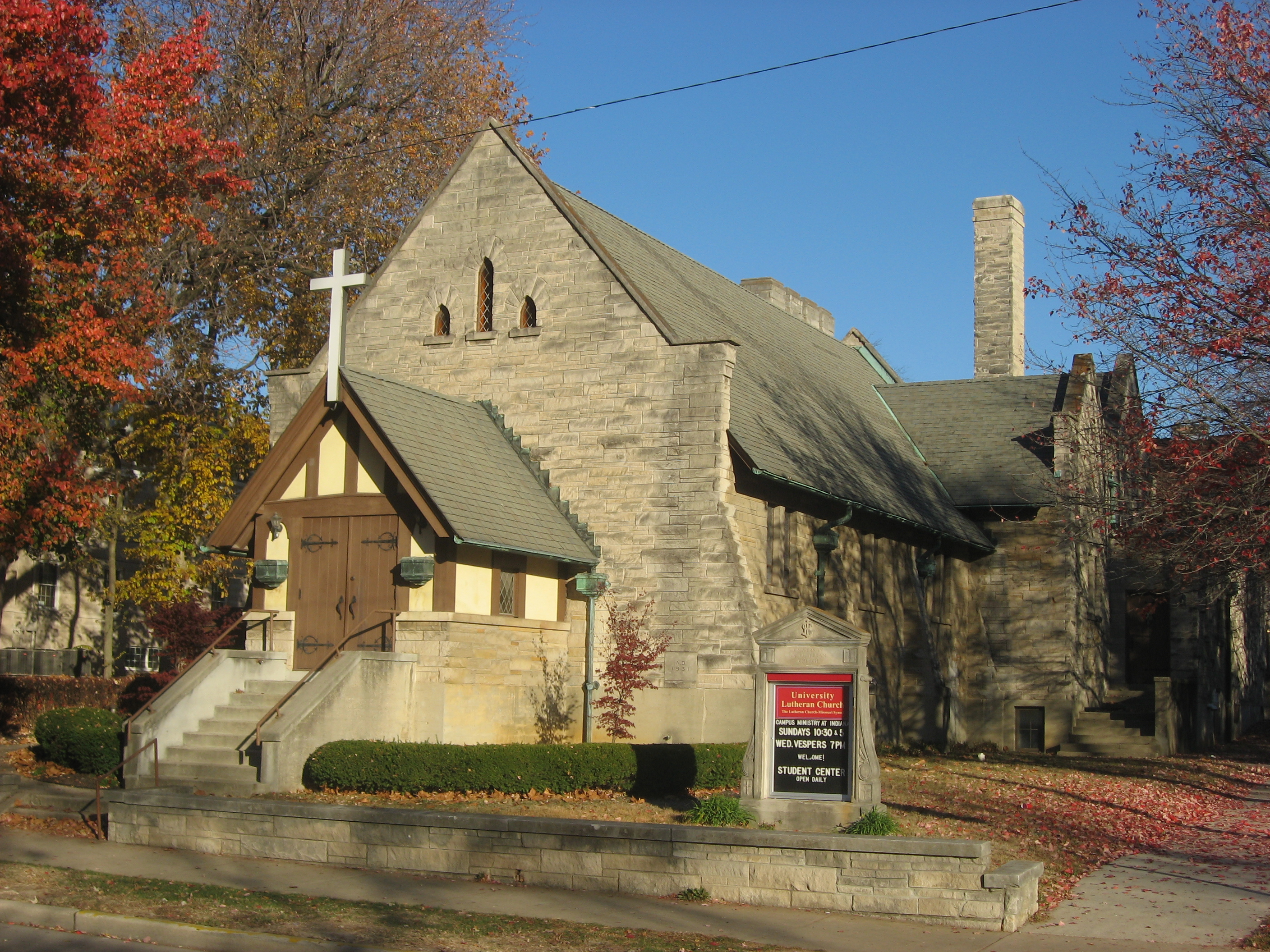 Front of University Lutheran Church (LCMS), located at 607 E. Seventh Street in Bloomington, Indiana, United States. Built in 1930, it is a part of the University Courts Historic District, a historic district that is listed on the National Register of Historic Places.